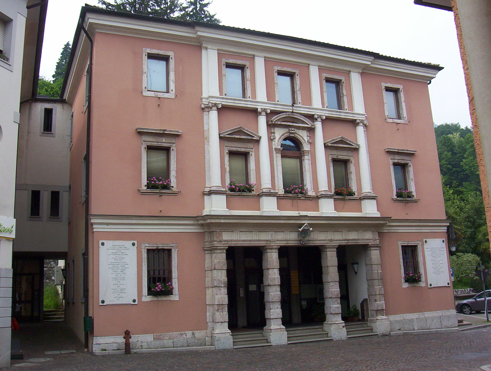 Municipio of Moggio Udinese (UD), Italy. A photo taken by Trevirgola, may 2006.